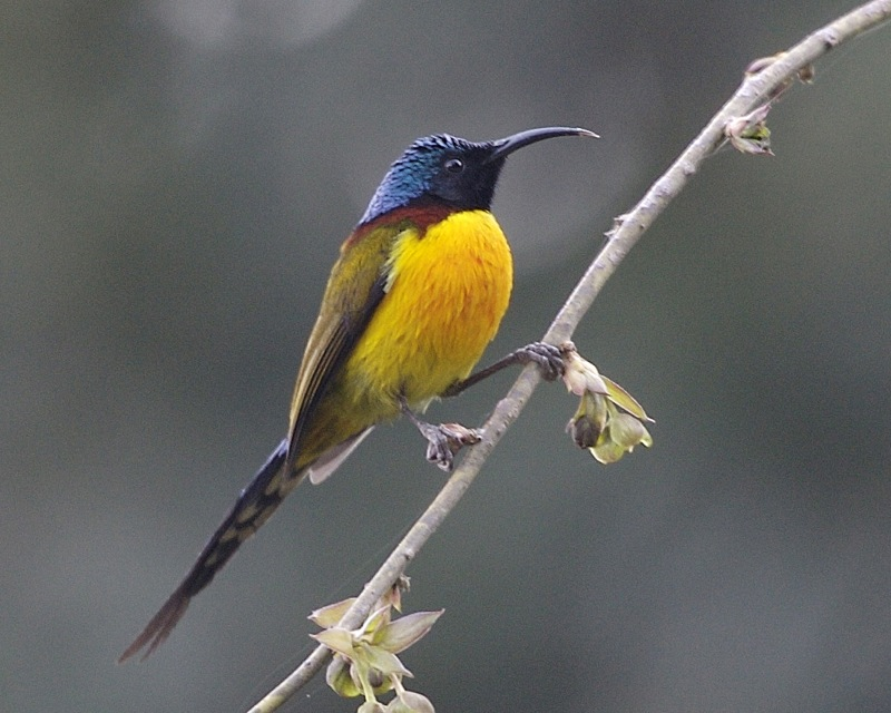 Green-tailed Sunbird Aethopyga nipalensis Phulchowki, Kathmandu Valley, Nepal 14th. March 2009